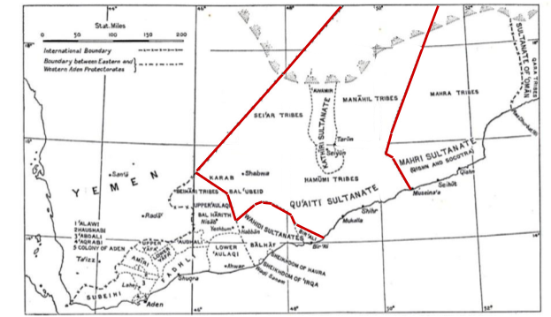 Map outlining Qu'aiti State in Hadhramaut